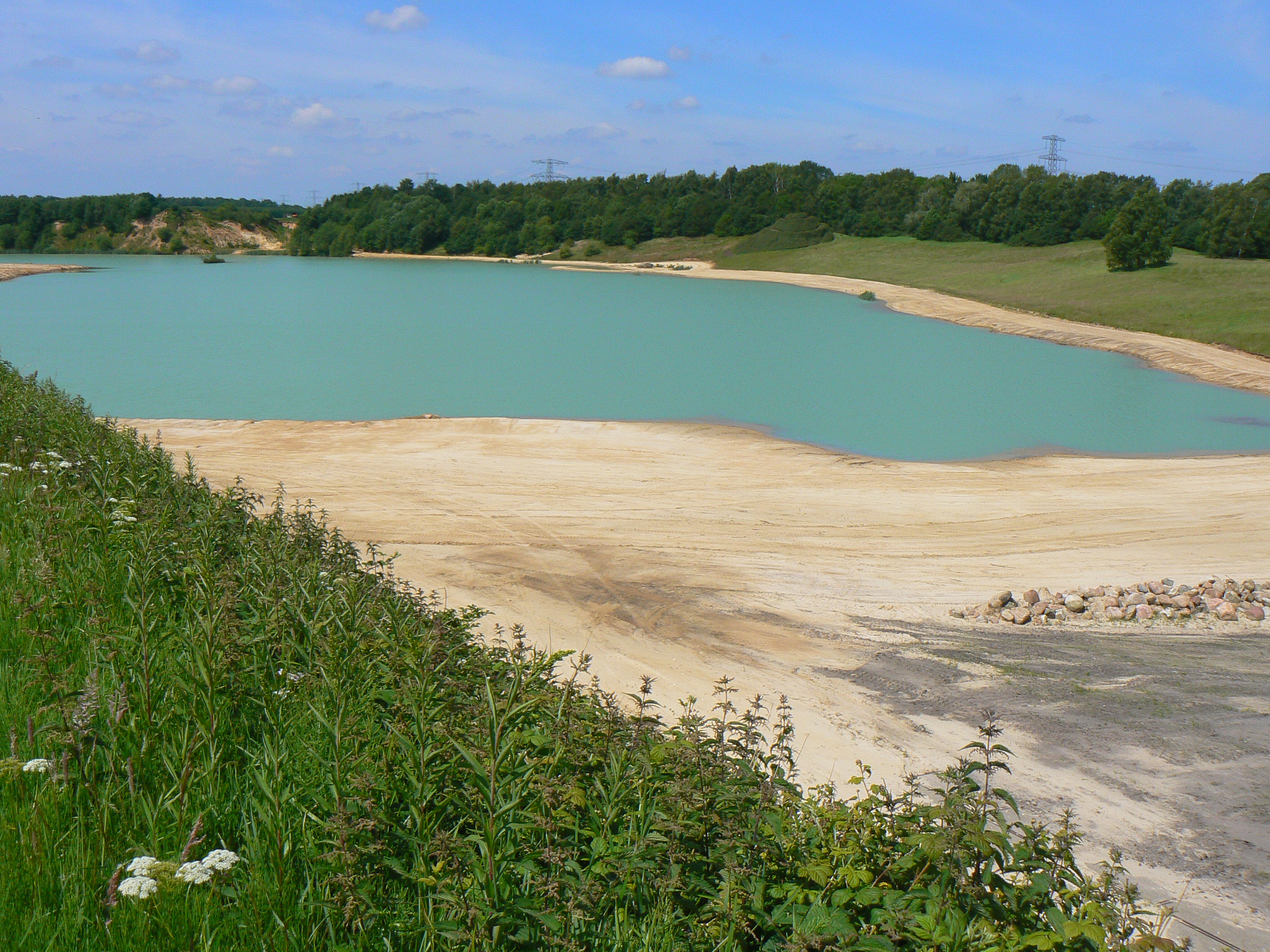 Broken Circle and Spiral Hill (1971) by Robert Smithson, Sand-pit Emmerschans in Emmen/The Netherlands